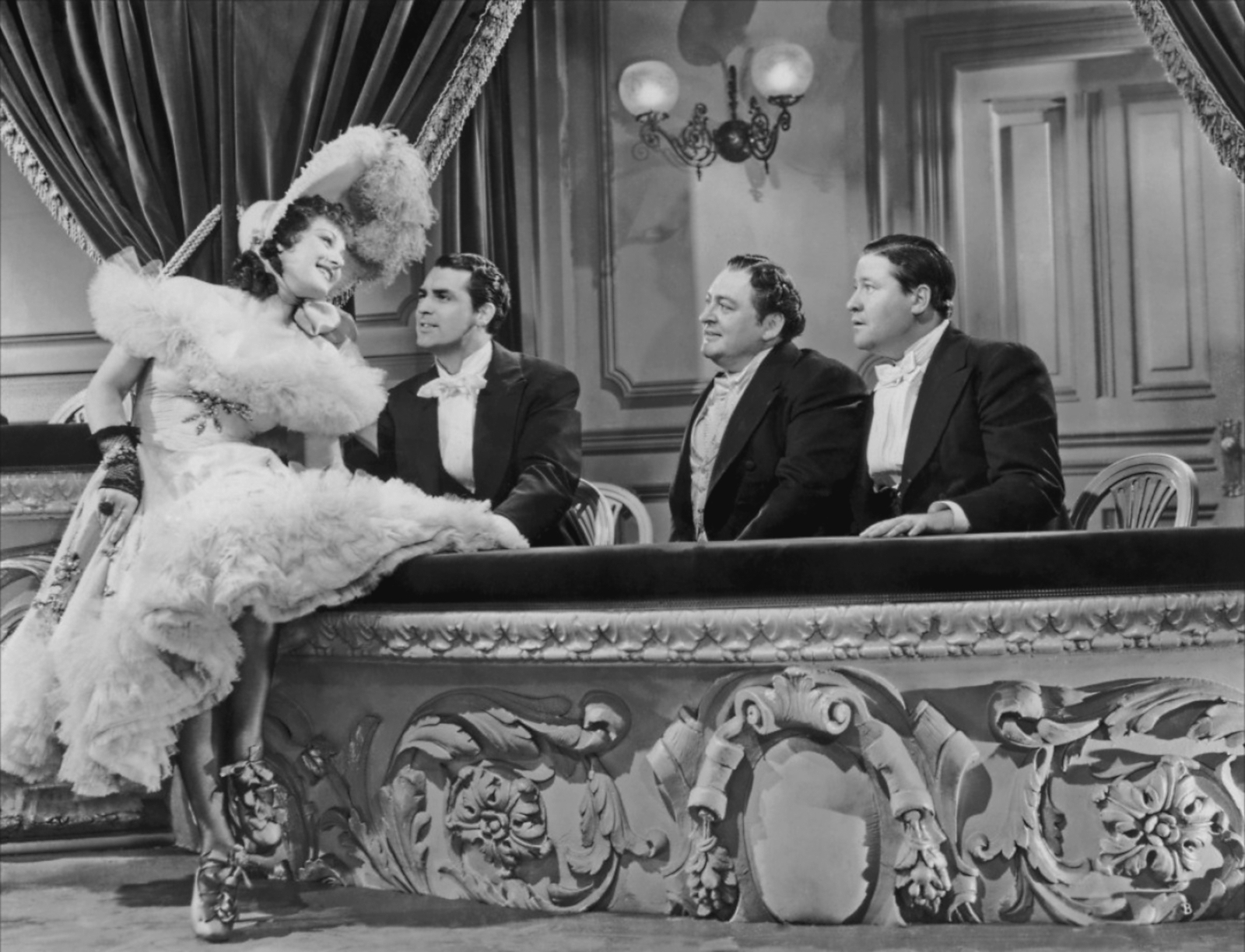 Photo from the 1937 film The Toast of New York. Thelma Leeds and Cary Grant are at left. Note this is a larger, better quality photo in greyscale than the image in the trade magazine. The RKO multi-page ad covering pages 41-45 has no copyright marks on any of the pages. RKO did not mark the ad as copyrighted. The Motion Picture Herald copyright covered only the editorial content of the magazine, not the ads placed in it. US Copyright Office page 3-magazines are collective works (PDF) "A notice for the collective work will not serve as the notice for advertisements inserted on behalf of persons other than the copyright owner of the collective work. These advertisements should each bear a separate notice in the name of the copyright owner of the advertisement."